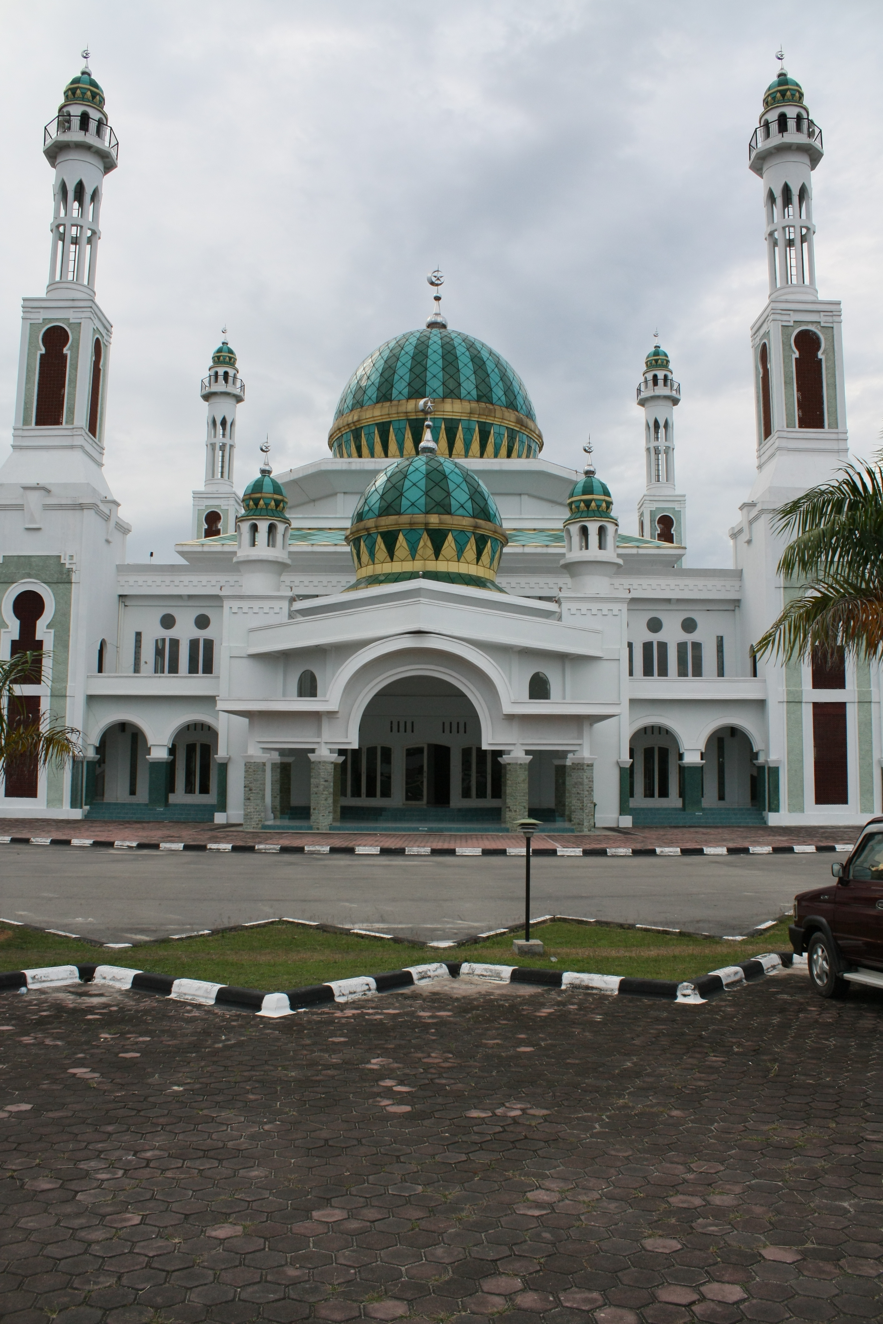 Grand Mosque in Dumai (Indonesia)